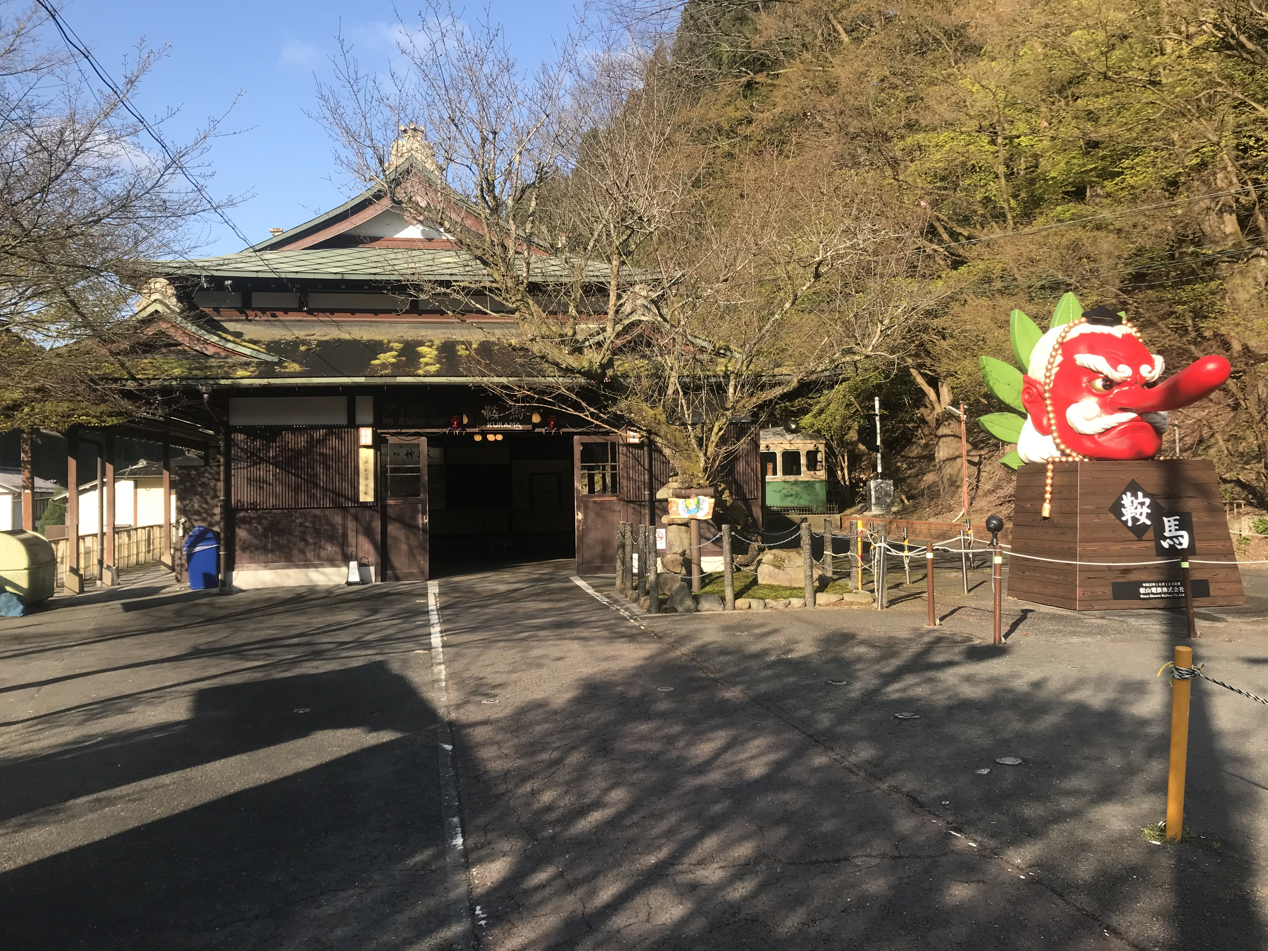 Kurama station building and "Tengu" statue